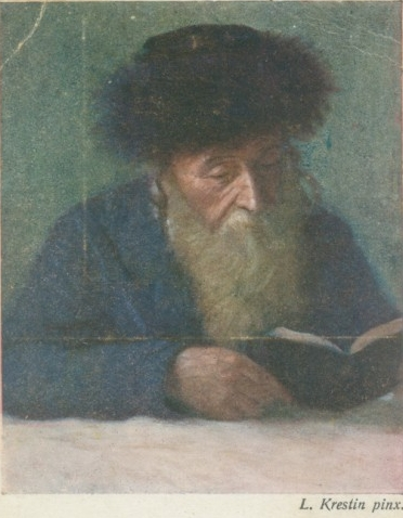 Drawing by Lazar Krestin, based on the only known picture of the Divrei Chaim. Printed on a postcard.